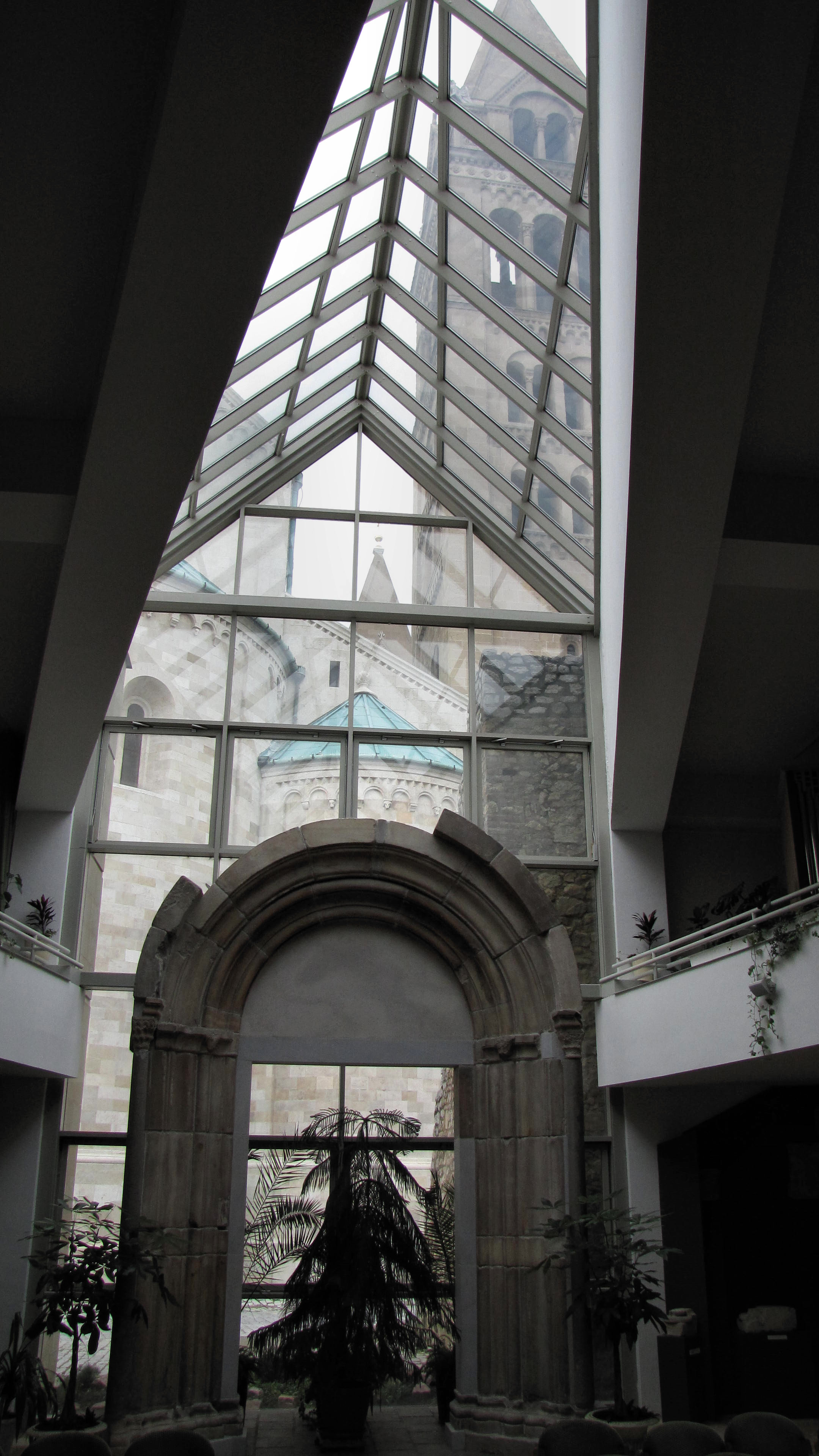 Dom Museum, Pécs. Built by Zoltán Bachman.